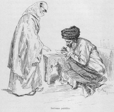 published 1878, scketches of people living in istanbul